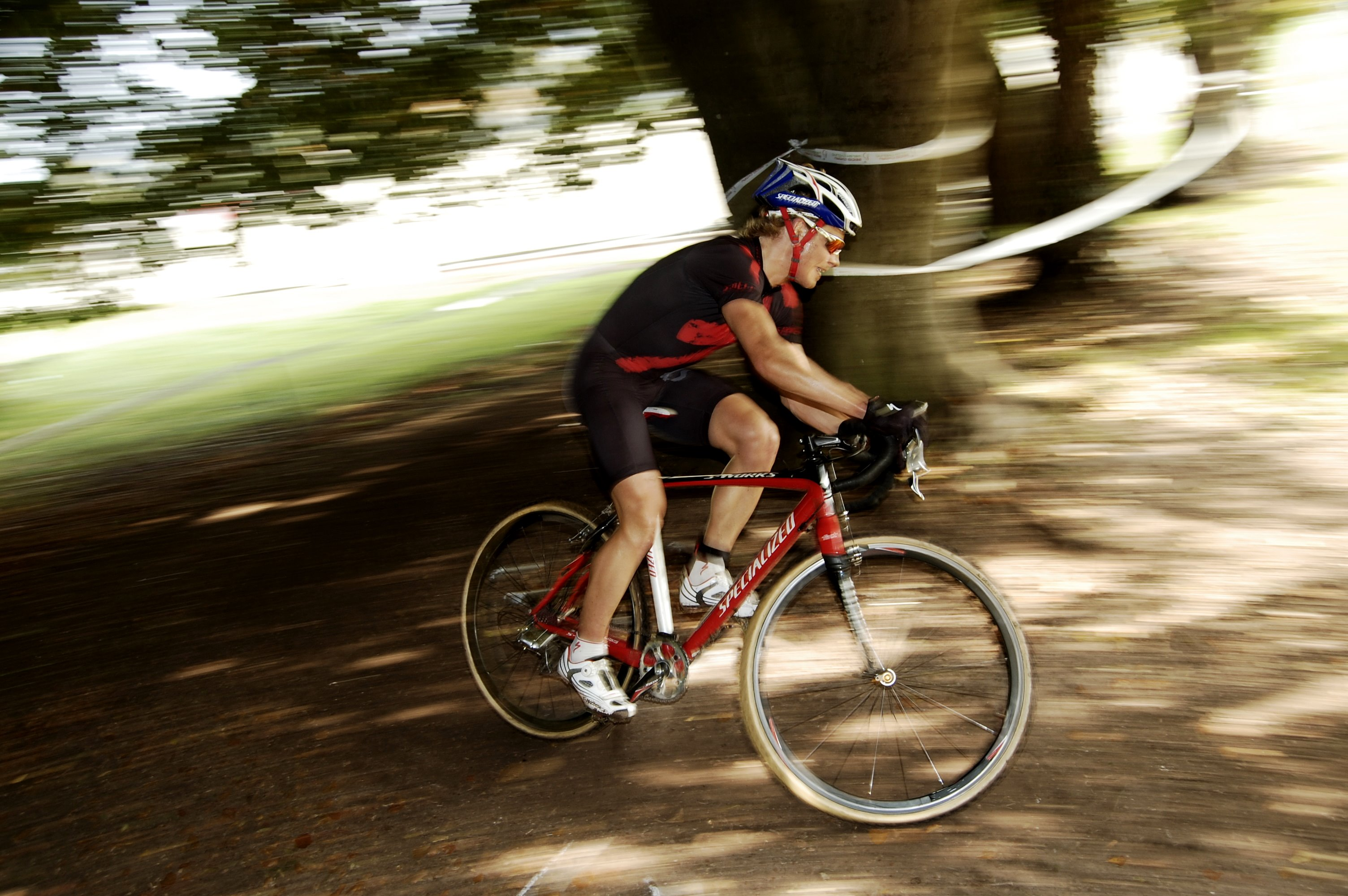 Liam Killeen competing in the British Cycling National Trophy 2010 Round 1 Senior / U23 race at Abergavenny Leisure Centre.